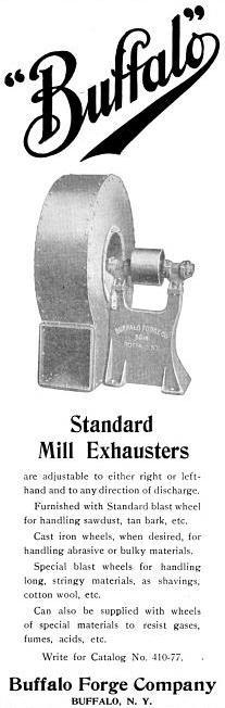 Advertisement image and slogan for a standard mill exhauster for Buffalo Forge